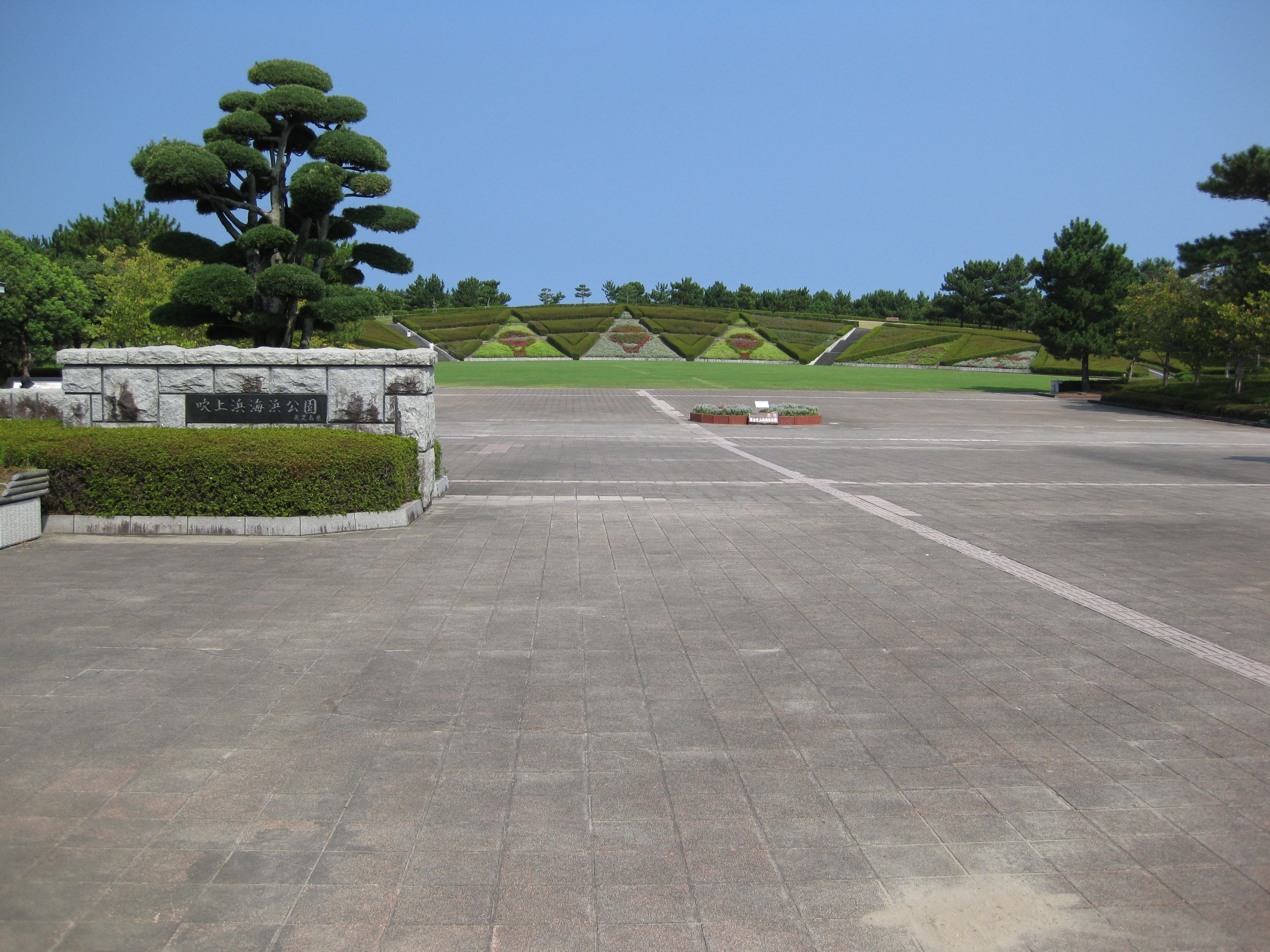 Fukiagehama Seashore Park in Kagoshima, Japan